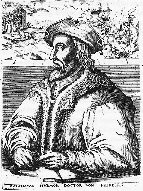 German Anabaptist Balthasar Hubmaier (1485-1528); Gravure by Christoffel van Sichem